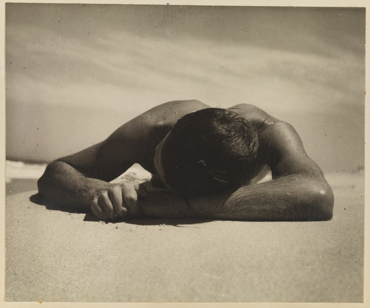 Alternate Sunbaker, with hands clasped, Max Dupain, 1937-1948 silver gelatin print, from original 1937 negative, held by the State Library of New South Wales.